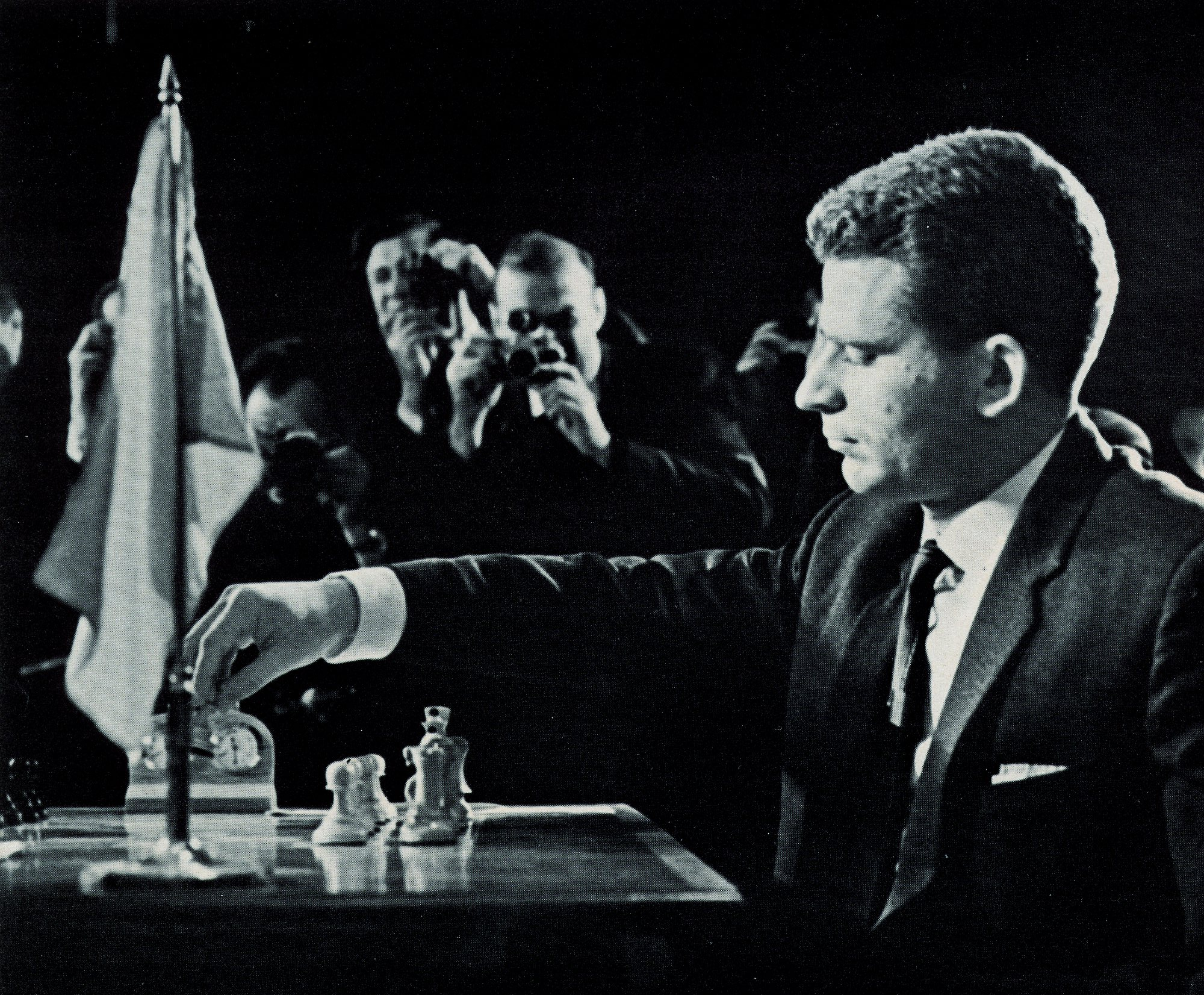 Boris Spassky as depicted in Soviet Life, February 1969